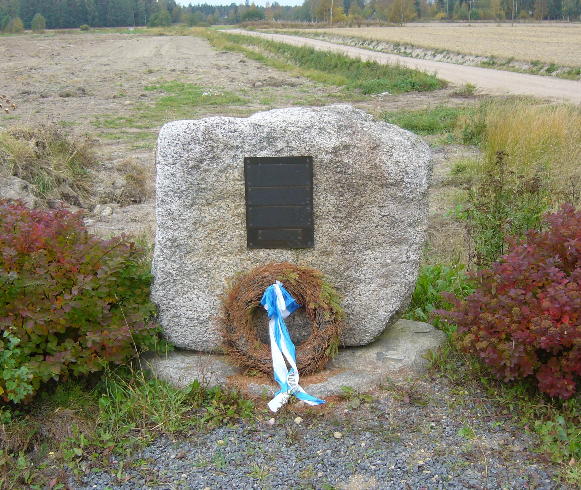 Finnish War memorial in Harjankylä, Kauhajoki, Finland